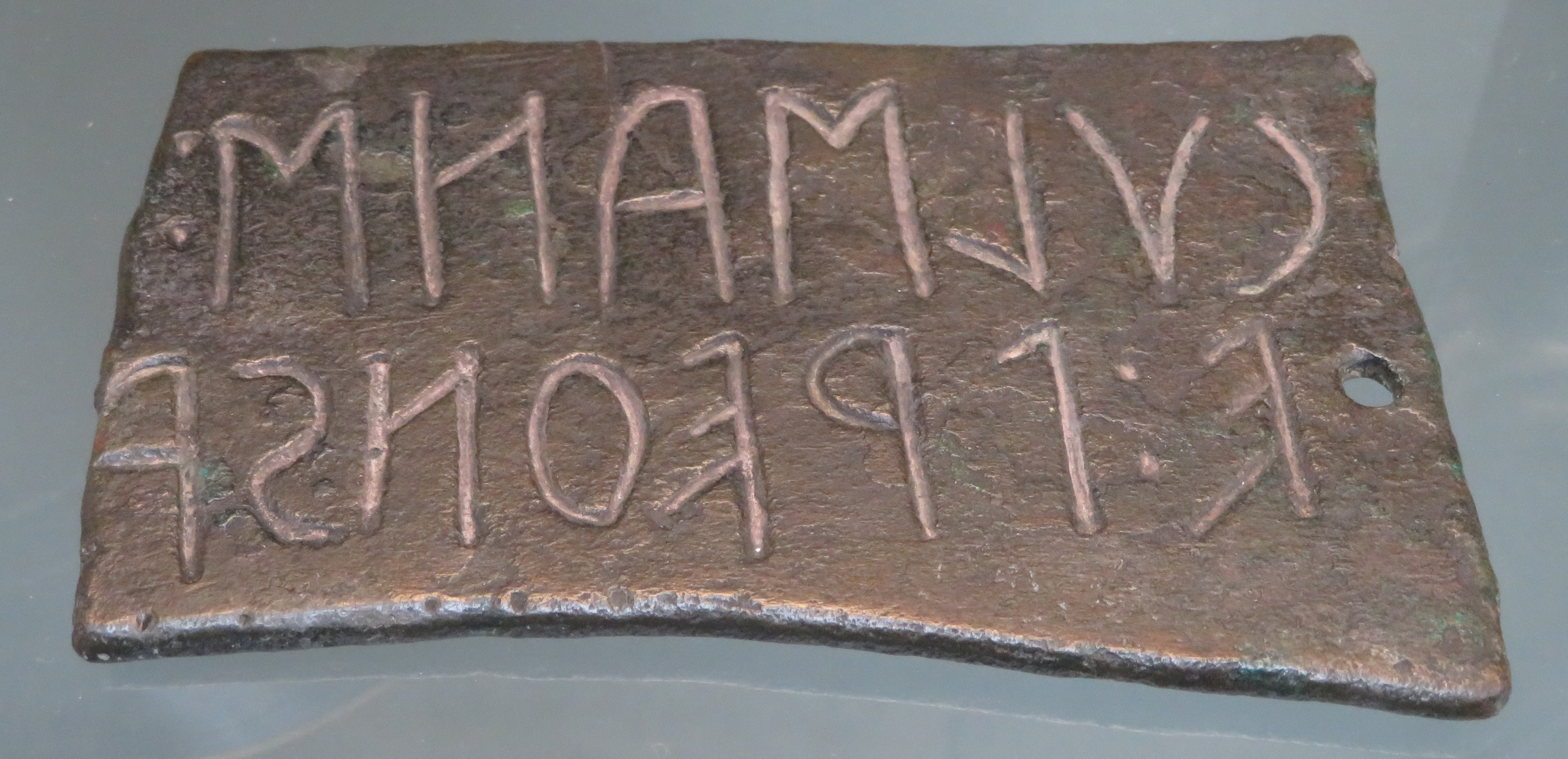 Bronze plaque with dedication to Culsans engraved in Etruscan script. 300–100 BC. Inscribed right-to-left (with mirrored glyphs): 𐌂𐌖𐌋𐌑𐌀𐌍𐌑⁚𐌄⁚𐌐𐌓𐌄𐌈𐌍𐌔𐌀 (culśanś:e:preθnsa). Originally in the collection of the 19th-century Quaker, William Allen. British Museum (PE 2007,8045.225).